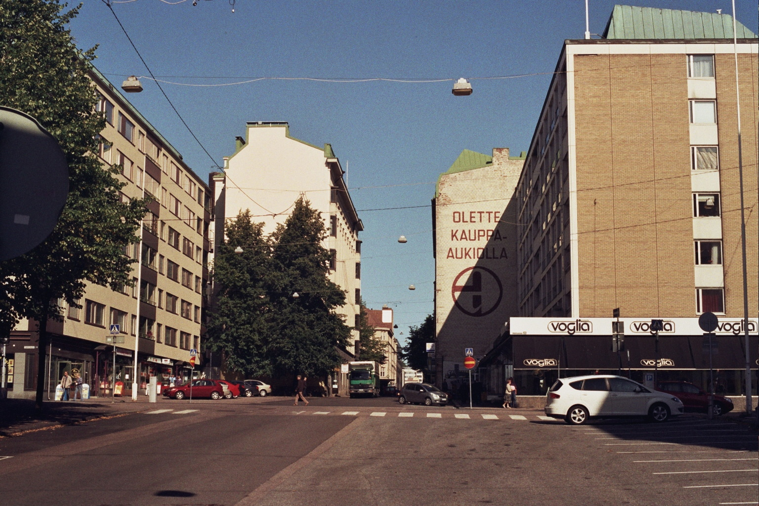 A view from Näsilinnankatu, a street in the center of the city of Tampere in Finland.